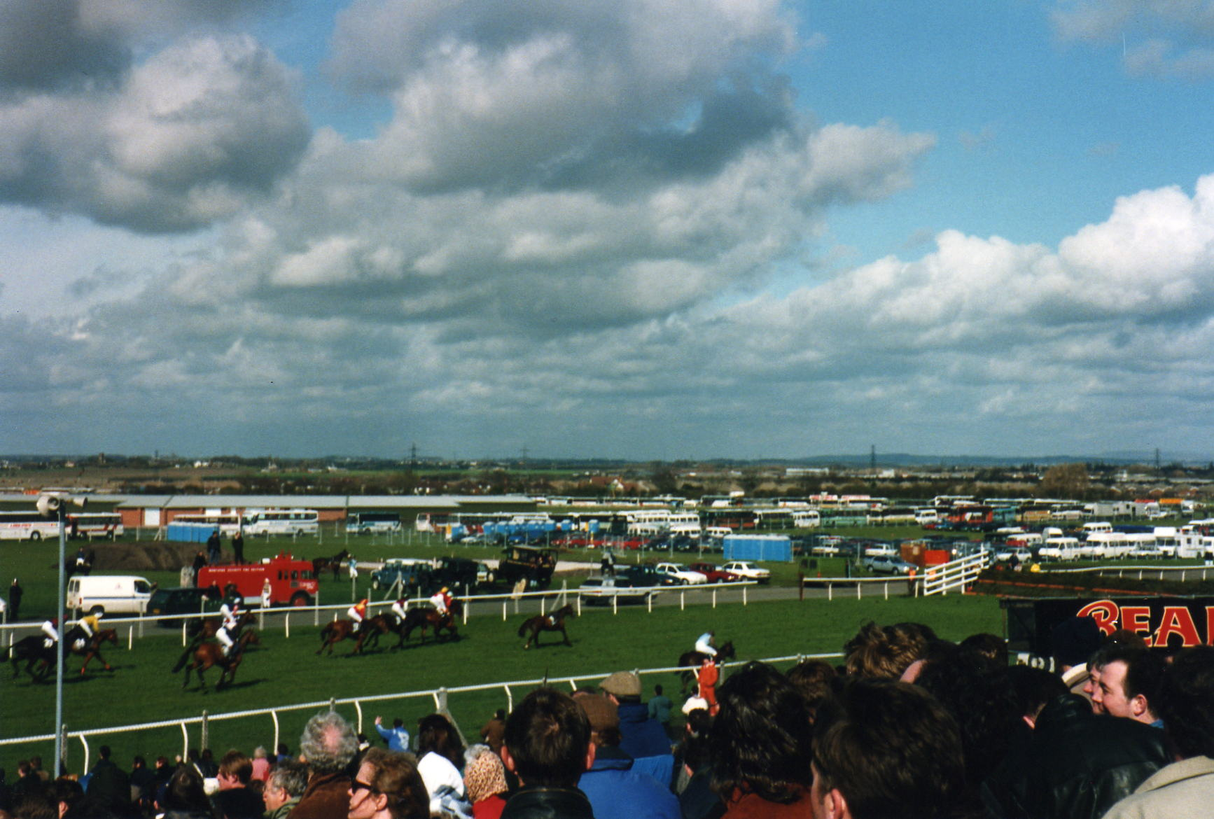 Grand National 1994 License on Flickr (2011-02-15): CC-BY-SA-2.0 Flickr tags: grand, national, zongo69